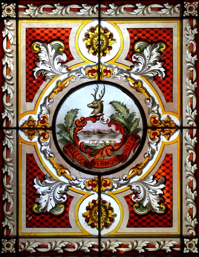 Stained glass skylight in the Cedar Creek Room in the Vermont State House (taken Sept. 23, 2004)